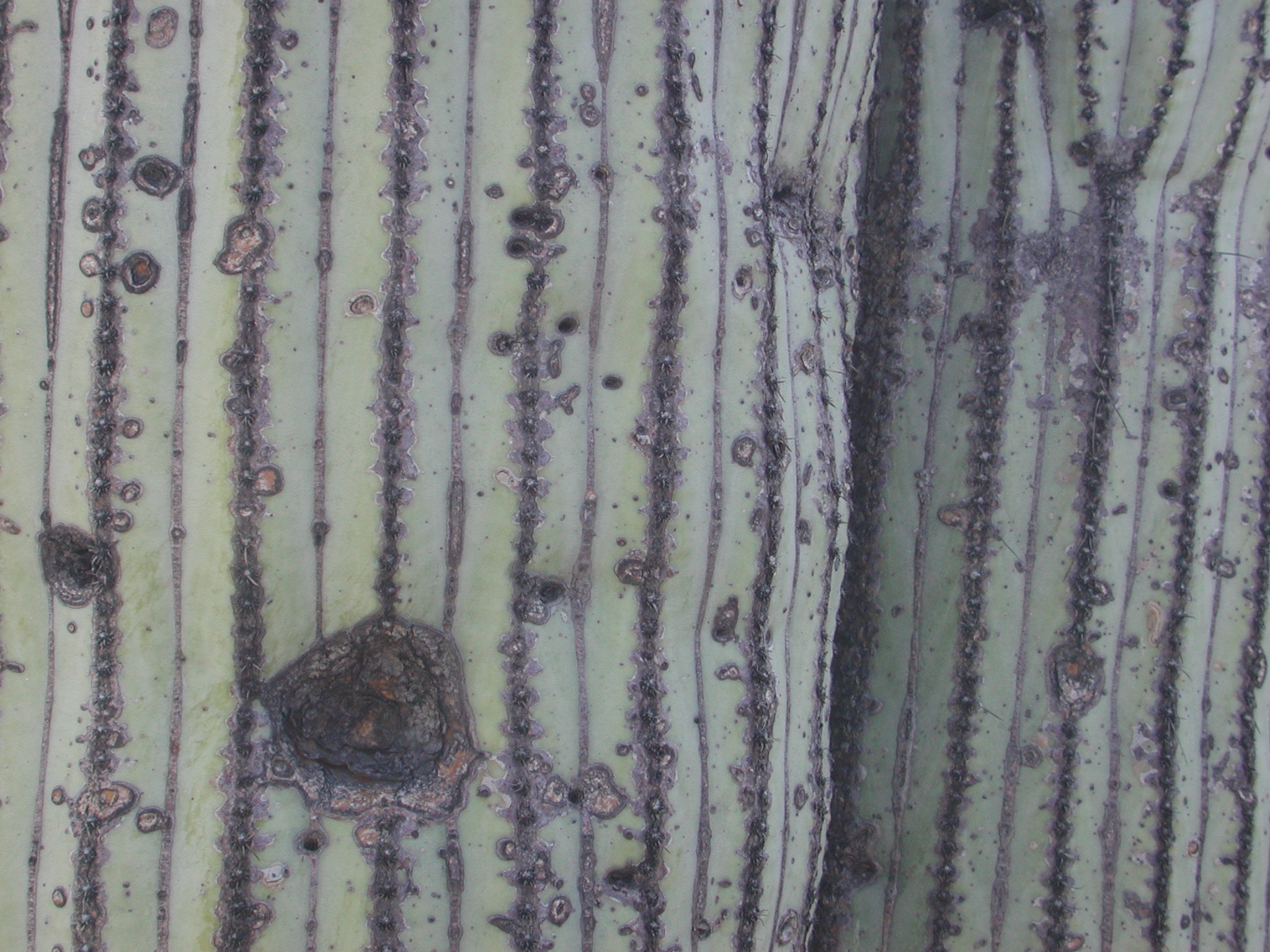 Detail of the epidermis of a Cephalocereus columna-trajani. Tehuacán Valley matorral ecoregion — near Tehuacán, Puebla, México.